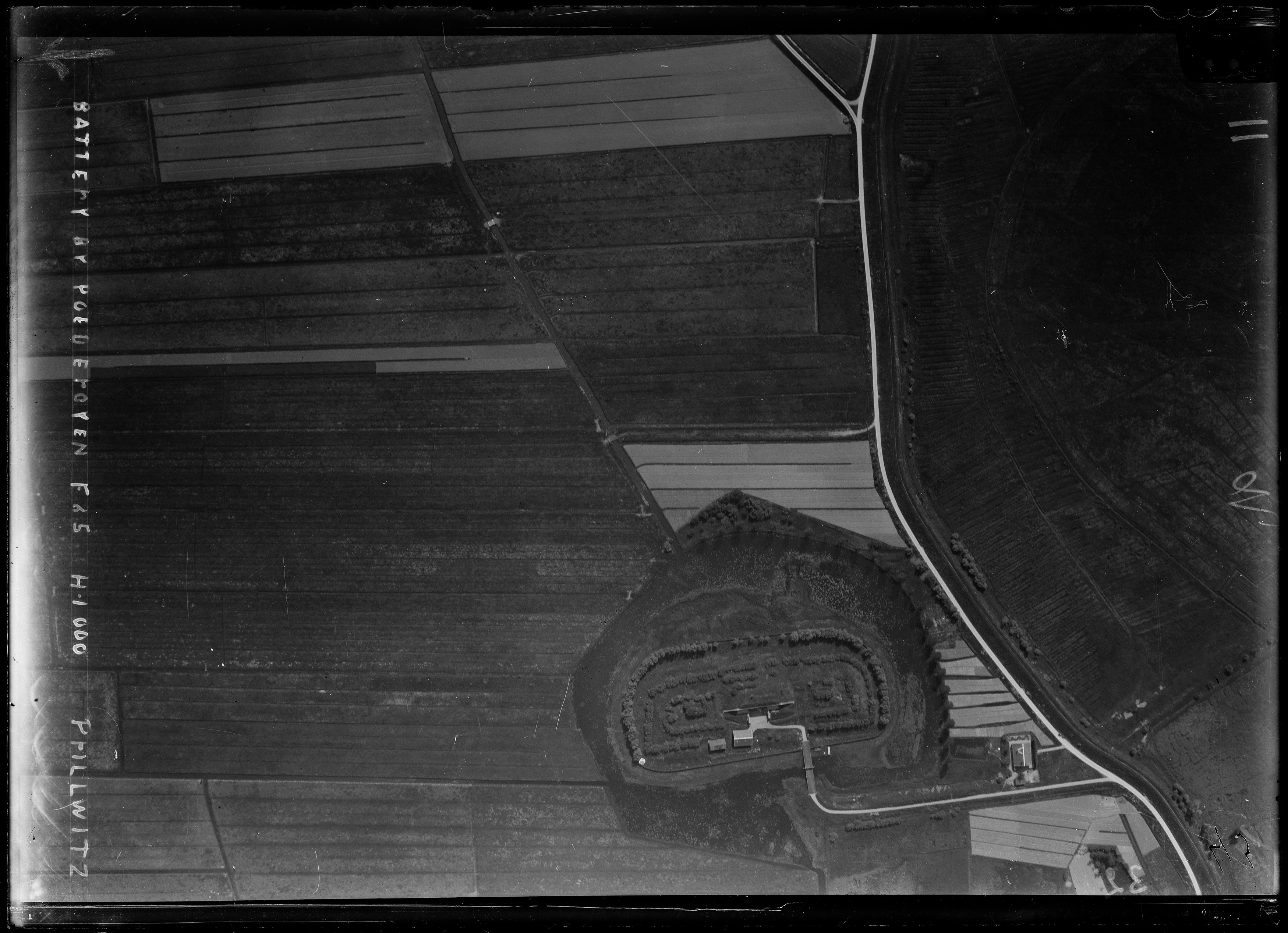 Aerial photograph of Batterij bij Poederoijen, The Netherlands